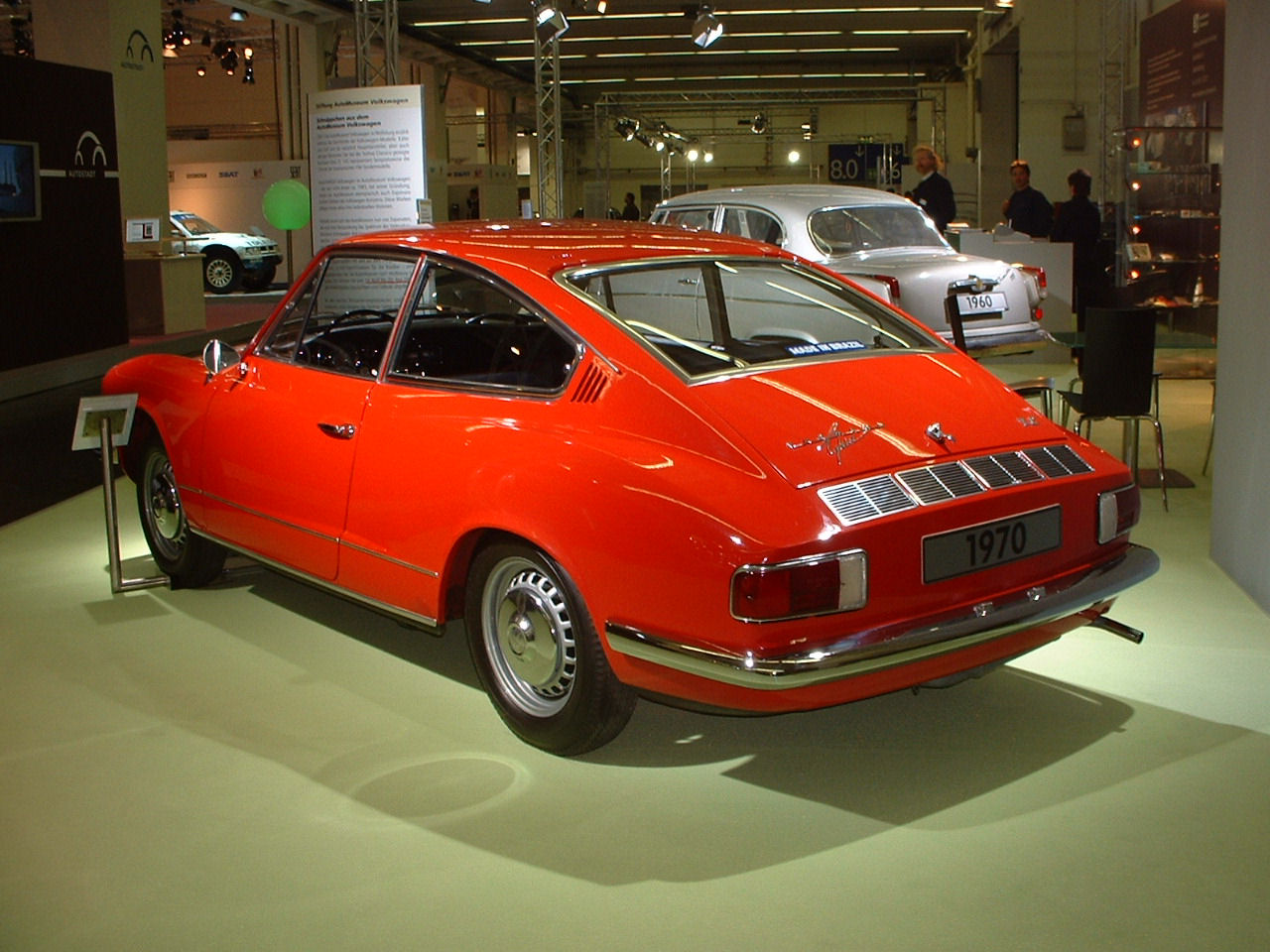 Actually built by VW do Brasil. Their interpretation of the Karmann Ghia, from 1970. Exhibited by VW at Techno Classica Essen in 2007.